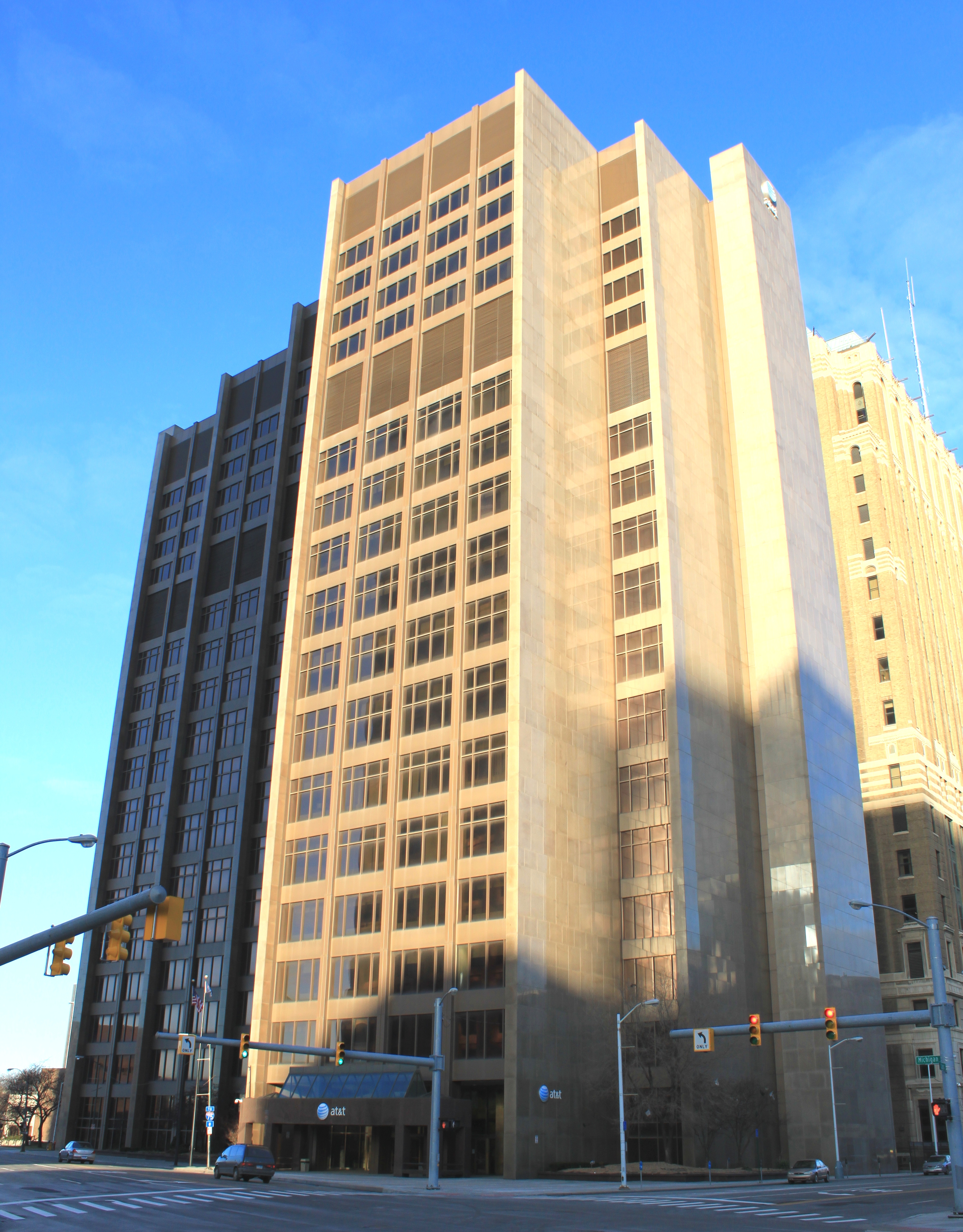 Michigan Bell/AT&T headquarters building, 444 Michigan Avenue, Detroit, Michigan.